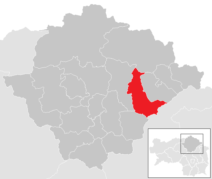 district Bruck-Mürzzuschlag